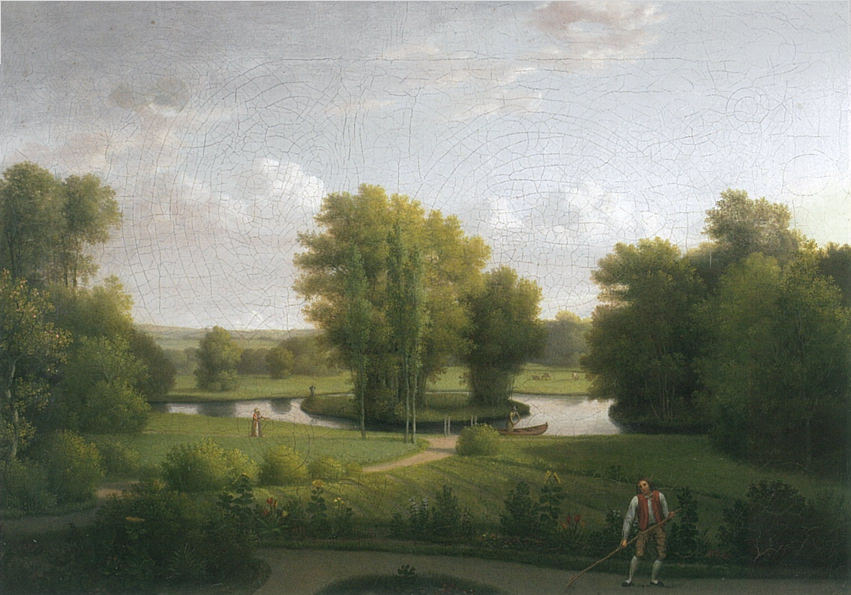 The garden seen from the main building. (The romantic garden at Sanderumgaard)